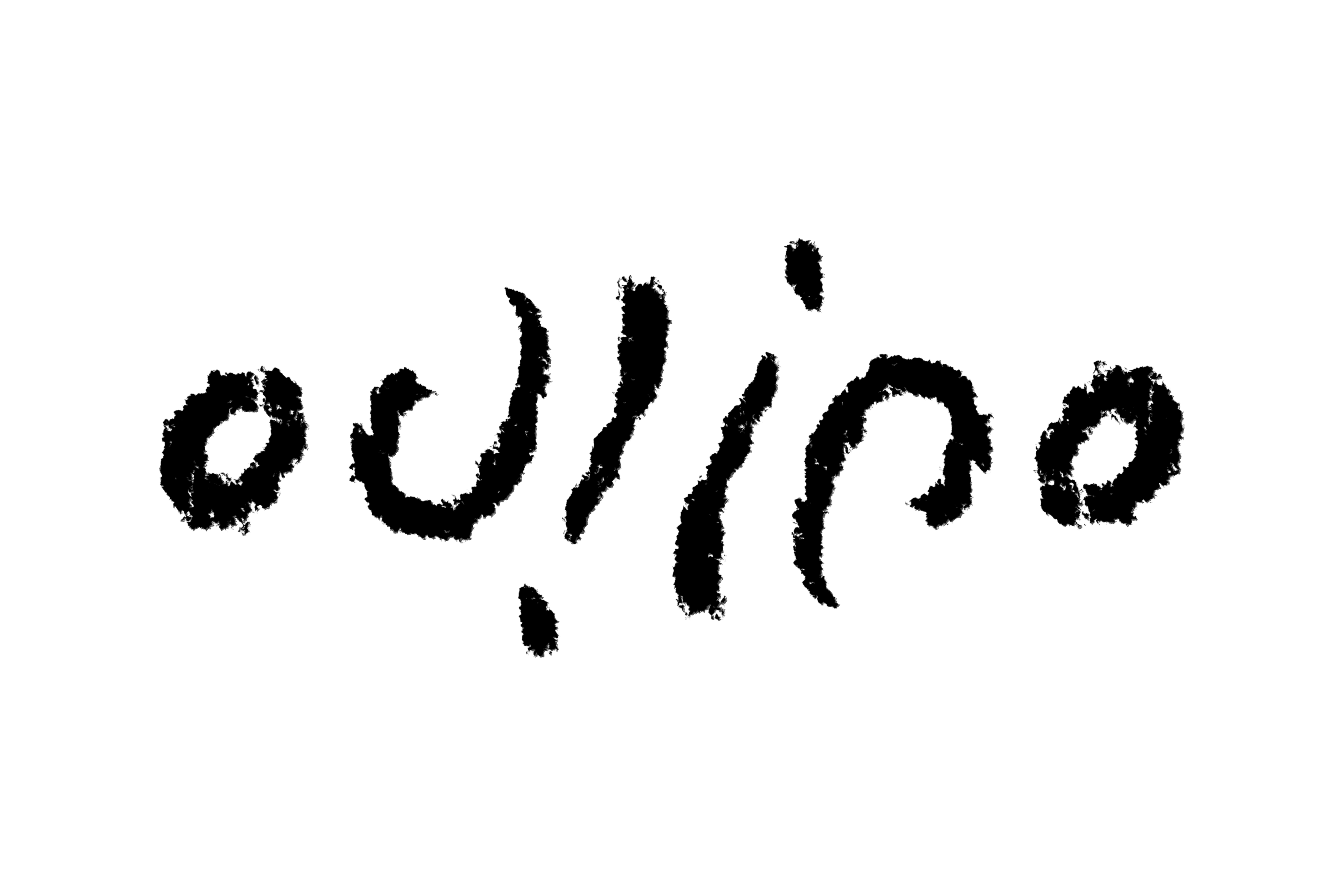 ambigram Oulipo, rotational symmetry of 180 degrees, style bold pencil texture